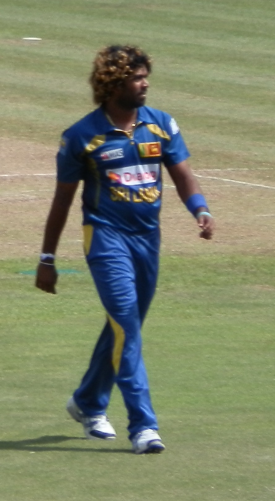 Malinga at Pallekele Stadium against South Africa